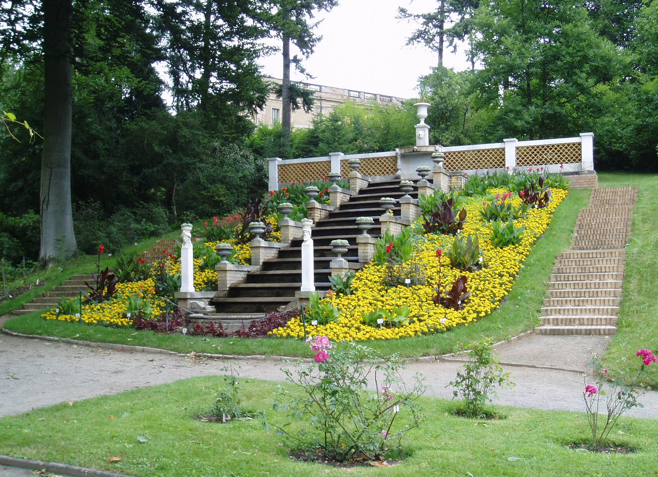 Botanical garden Potsdam, Germany, cascade